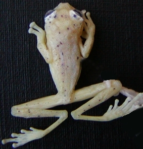 Preserved holotype of Centrolene mariaelenae Cisneros-Heredia & McDiarmid, 2006 (DFCH-USFQ D125)